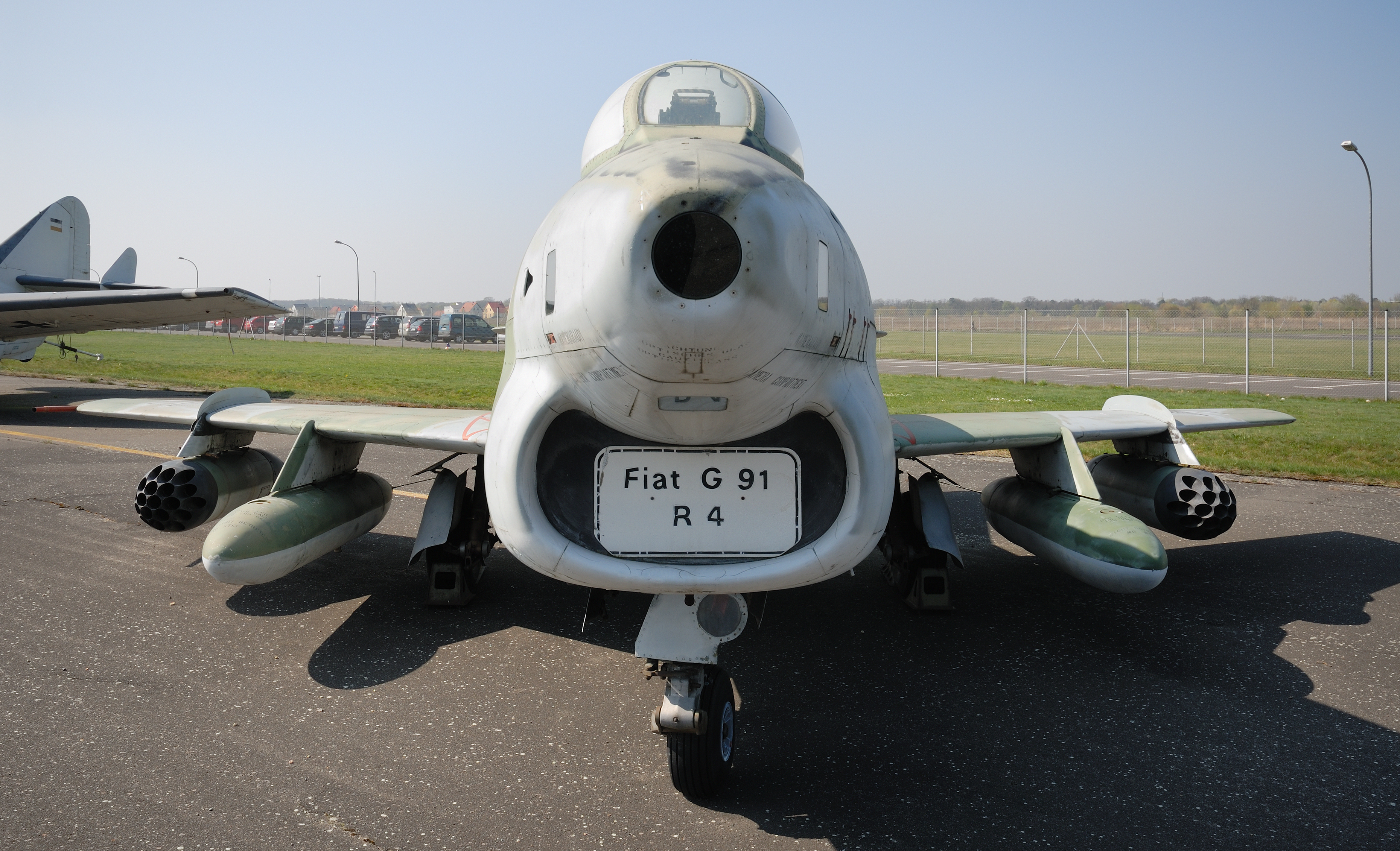 Air Force Museum of the Bundeswehr, Berlin-Gatow: Fiat G.91 R/4.Note: some people may check the image location on Google Maps as of 2010. Most of my images of the Gatow museum match the plane shown in Google Maps. Here it is different: the position is next to one of two Lockheed F-104. I assume the closer one is a temporary substitute for the Fiat which may have been in service. The EXIF data contain the raw GPS data which were recorded by a camera-linked GPS device with a precision of 5-10 m.